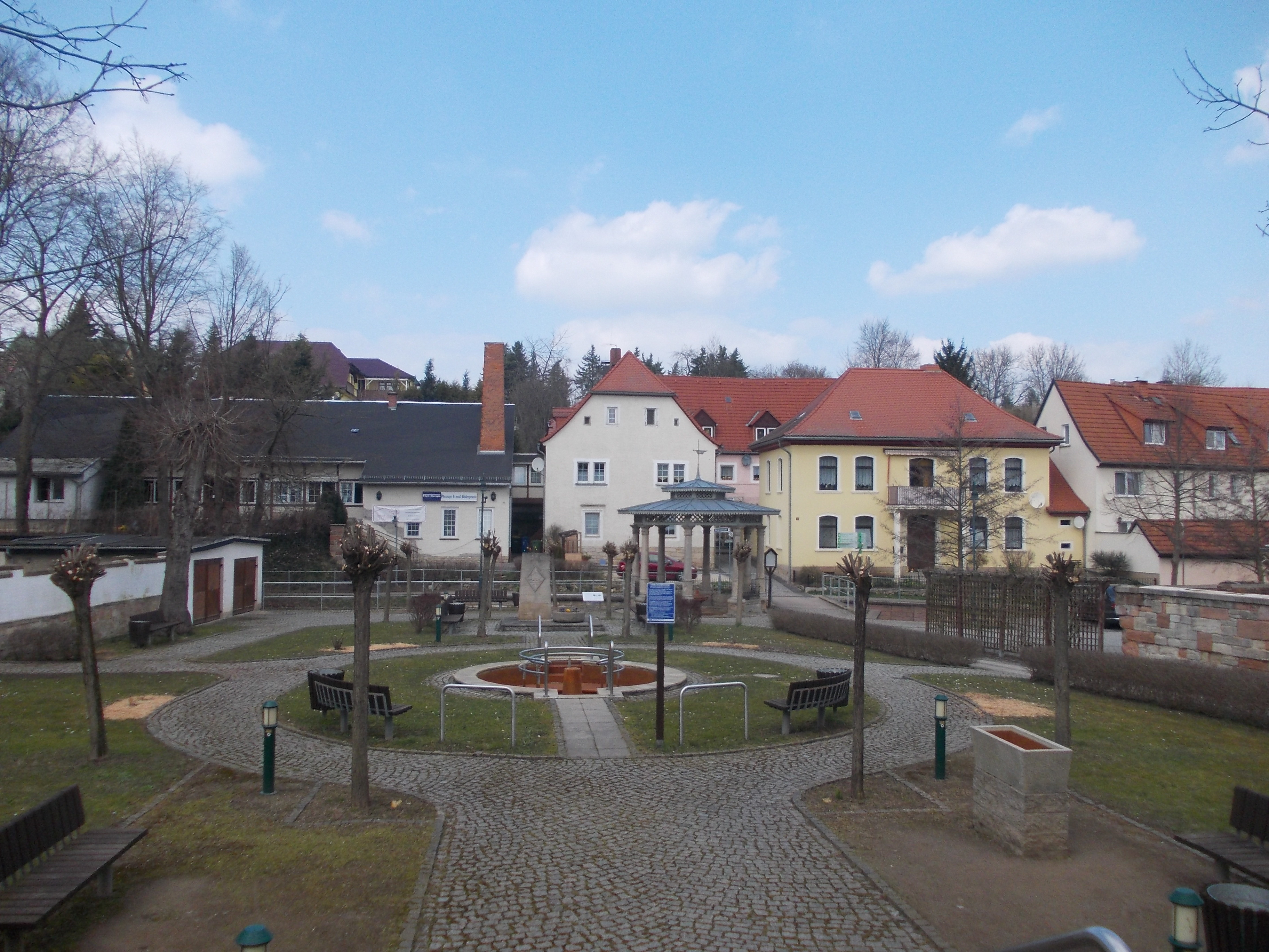 Badeplatz square in Bad Bibra (district: Burgenlandkreis, Saxony-Anhalt)